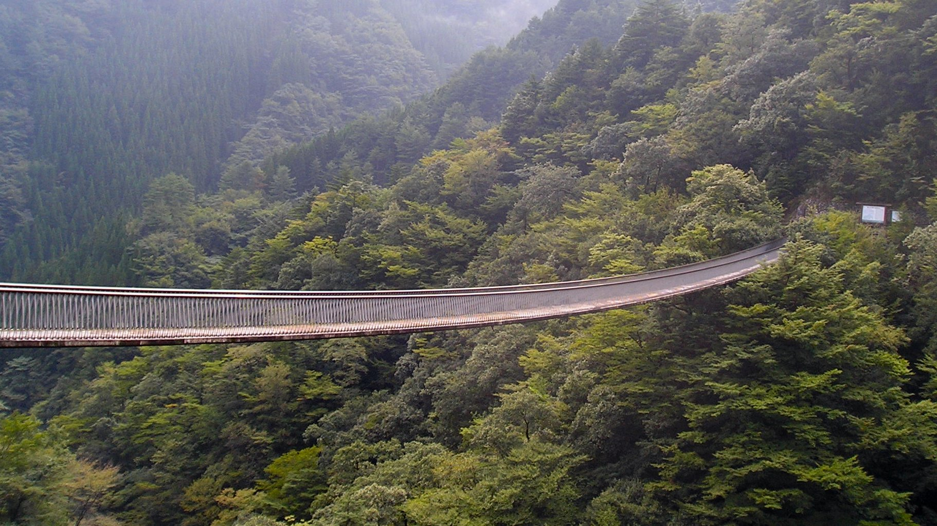 Umenokidokoro Park Suspension Bridge, Yatsushiro City, Kumamoto, Japan